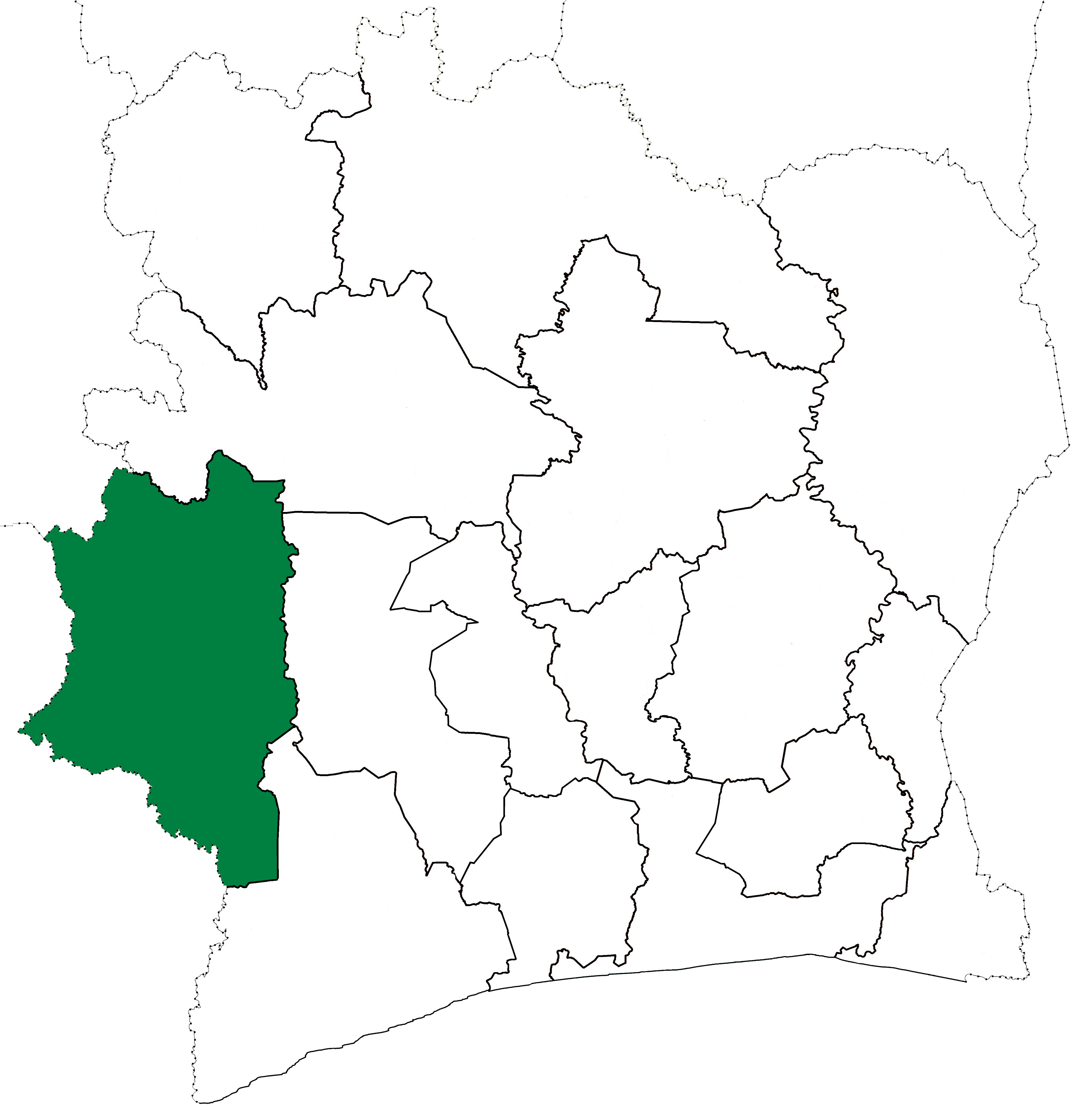 Locator map for Dix-Huit Montagnes Region in Côte d'Ivoire when the 16 regions were created in 1997. Three new regions were created in 2000, including Moyen-Cavally Region, which was carved out of Dix-Huit Montagnes.